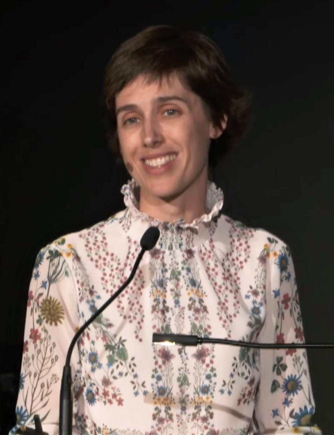 Join Google, Inc. and the Canada Science and Technology Museum for an evening of thought-provoking discussions about artificial intelligence. Invited speakers from industry leaders Google, Facebook, Element AI and Deepmind will explore the intersection of artificial intelligence with robotics, arts, social impact and healthcare. Speakers include David Usher (Moderator) Joelle Pineau (Facebook) - The AI Revolution: From Ideas and Models to Building Smart Robots Pablo Samuel Castro (Google) - Building an Intelligent Assistant for Music Creators Philippe Beaudoin (Element AI) - Concrete AI-for-Good initiatives at Element AI Doina Precup (Deepmind) - Challenges and opportunities for the AI revolution in health care For more information please visit